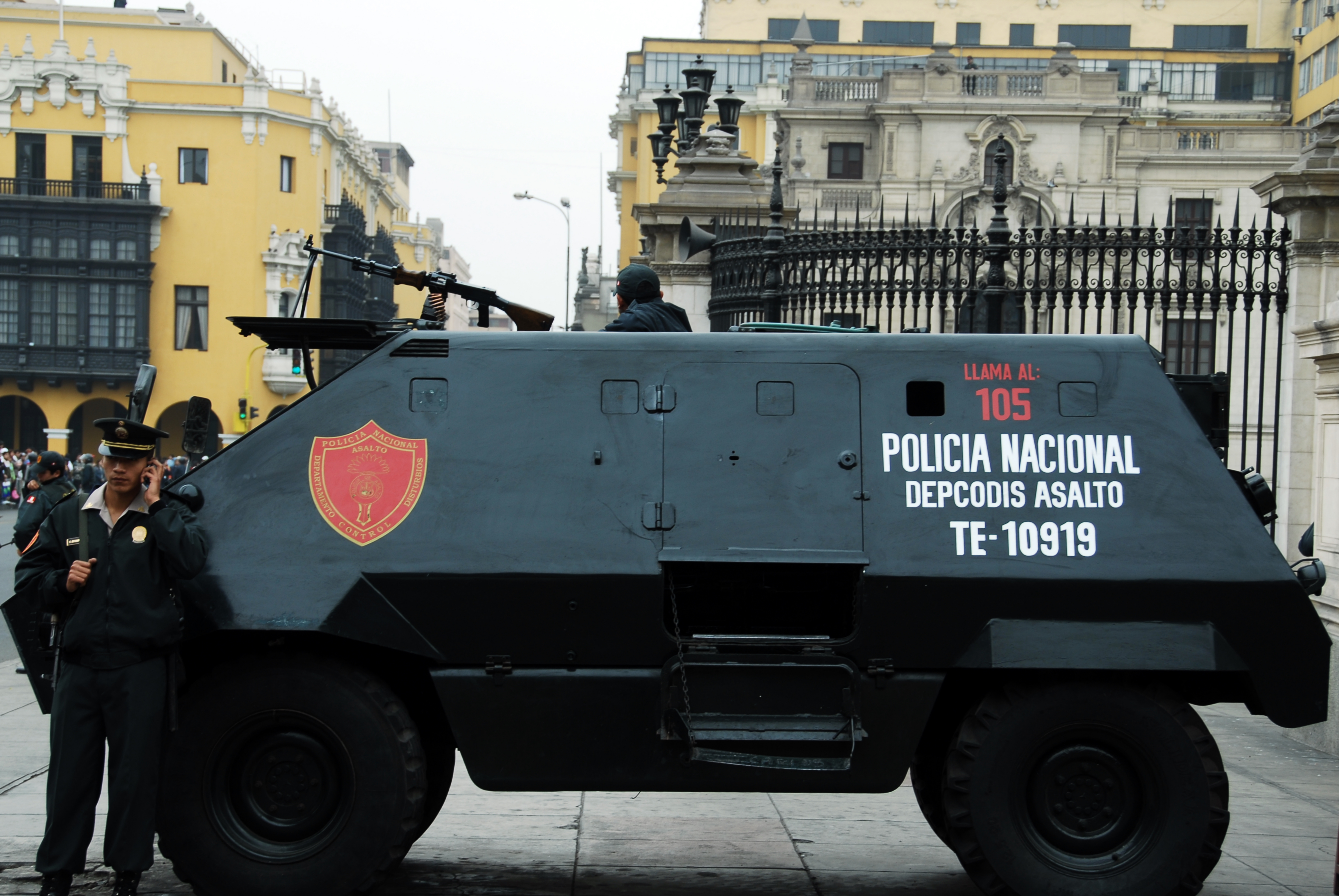 National police during a parade in Peru.